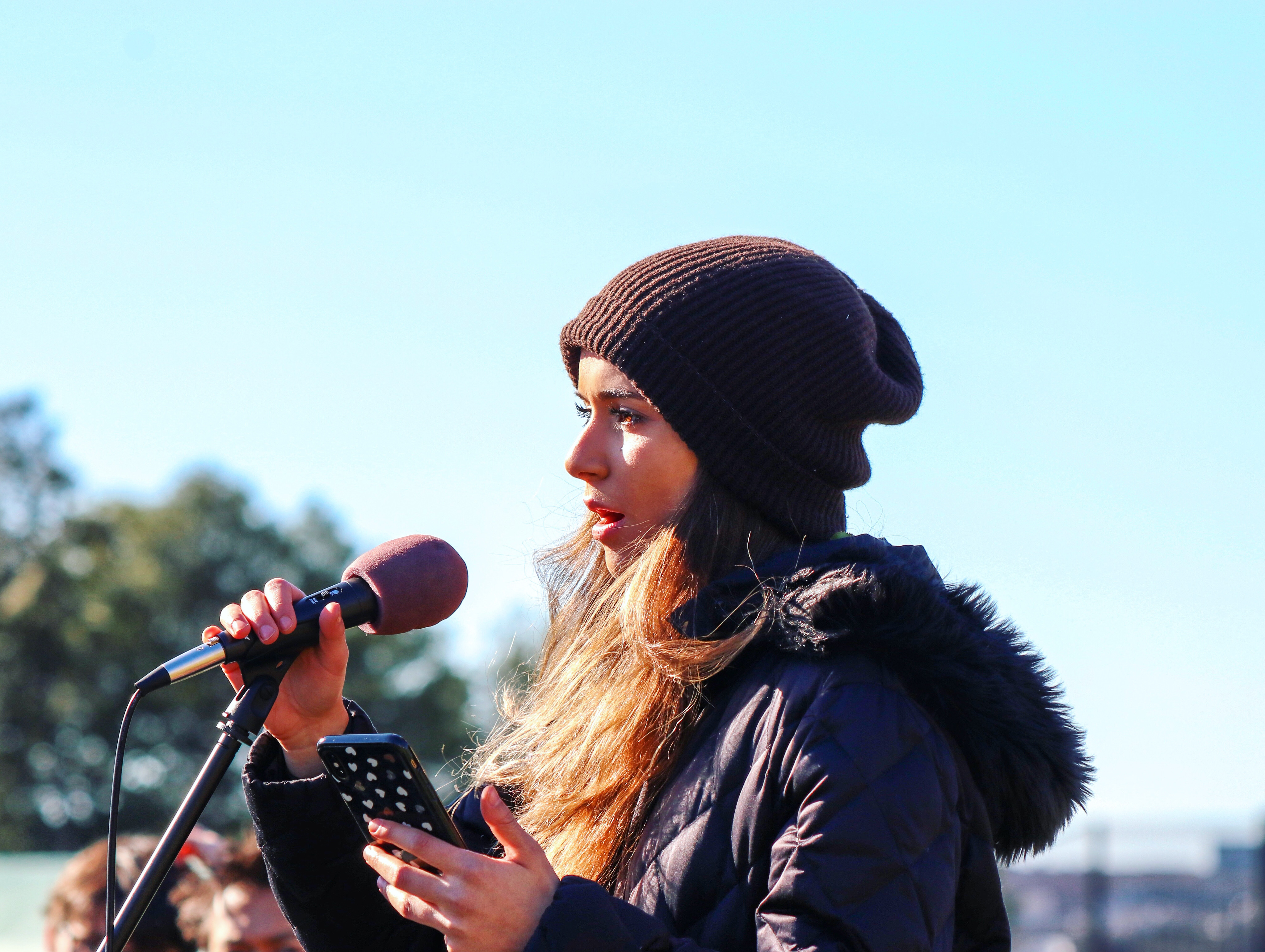 Sophia Kianni speaking at the Black Friday strike